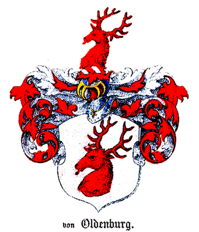 Coat of Arms of Baron Oldenburg family